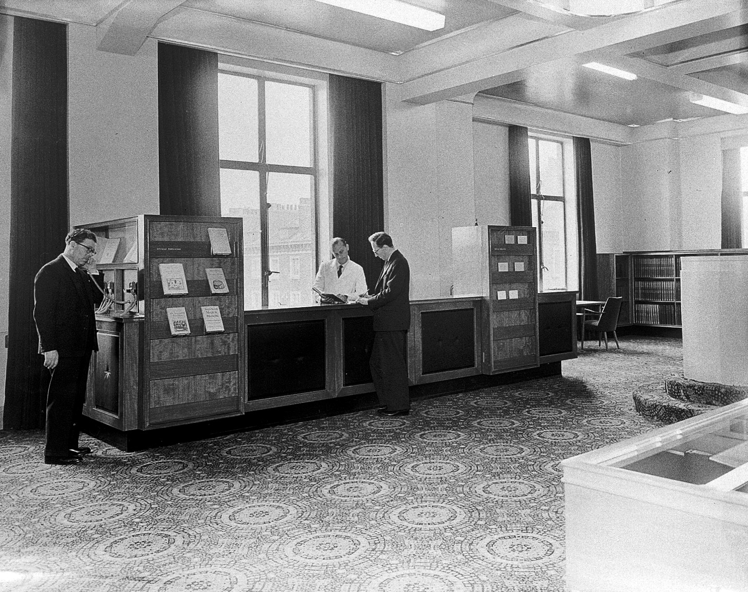 Reading room, figures from left to right: Poynter, S. H. Walkins (reading room superintendant), E. Gaskell (sub-librarian). Wellcome Images Keywords: Wellcome Historical Medical Library; E. Gaskell; Frederick Noel Lawrence Poynter; S. H. Walkins